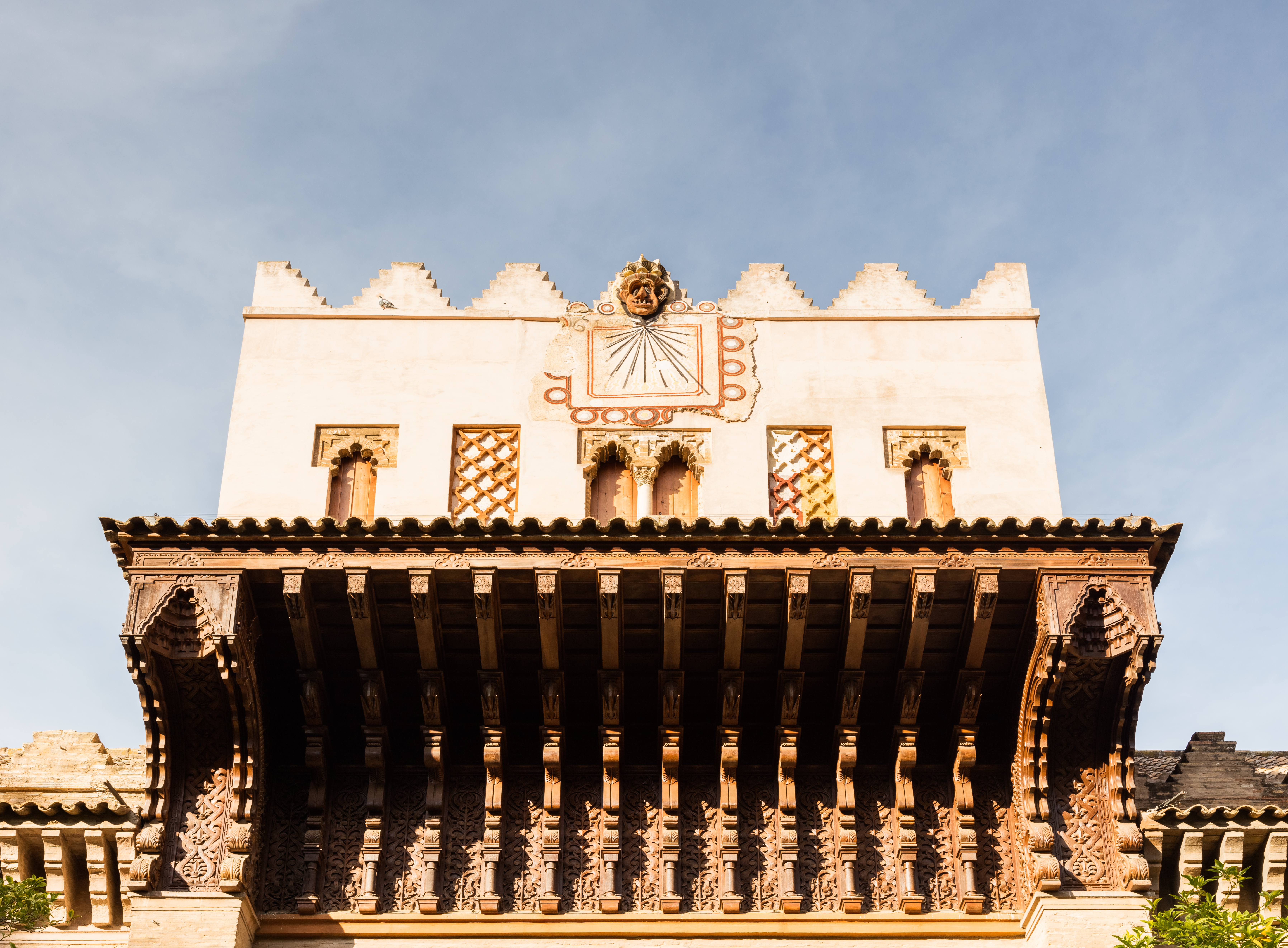 Puerta del Perdón, Cathedral of Seville, Seville, Spain